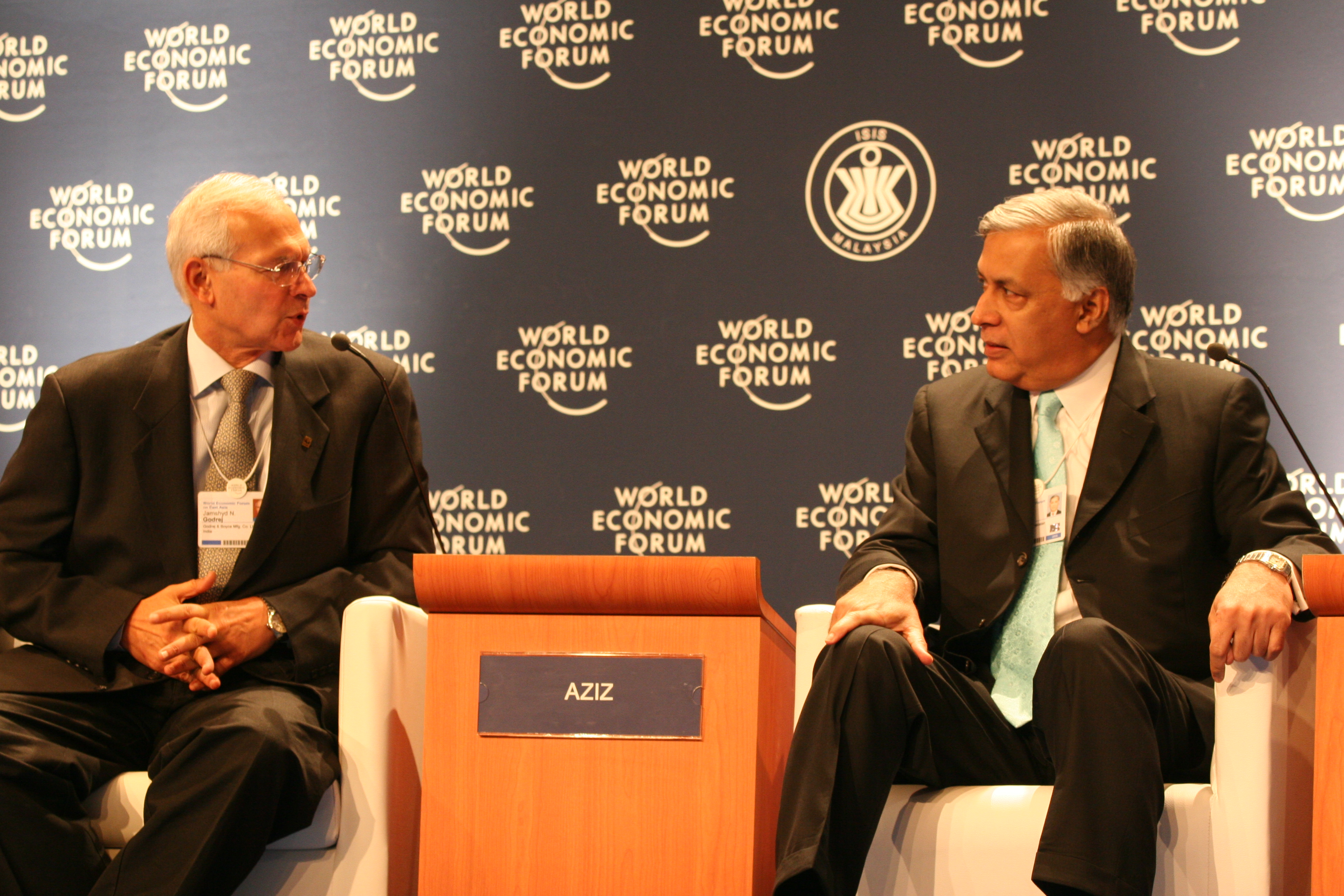 KUALA LUMPUR/MALAYSIA, 15JUN08 - Jamshyd N. Godrej, Chairman and Managing Director, Godrej & Boyce, India and Shaukat Aziz, Prime Minister of Pakistan (2004-2007), captured during a session (Delivering a Governance Dividend for Asia) of the World Economic Forum on East Asia 2008 in Kuala Lumpur, Malaysia, June 15, 2008. Copyright World Economic Forum ( Alim